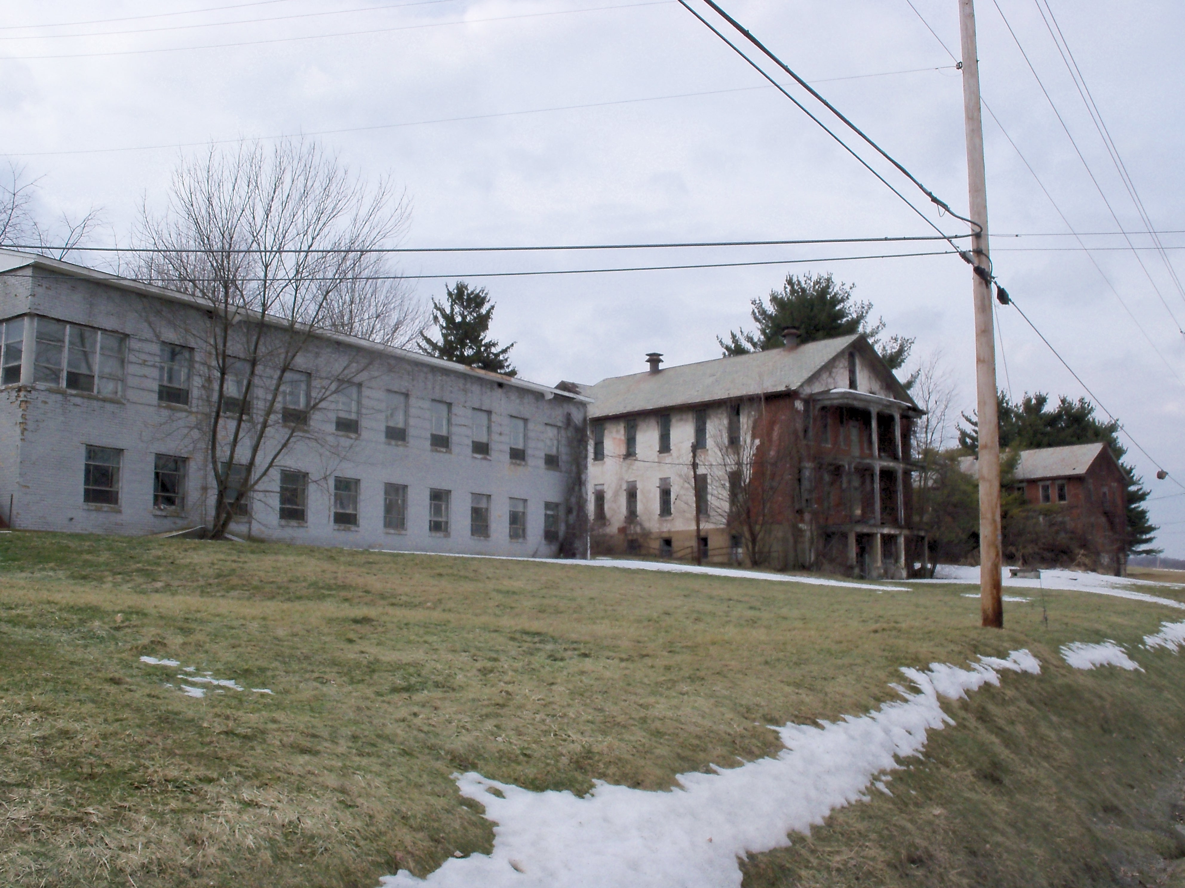 Columbiana County Infirmary, buildings on the National Register of Historic Places in Ohio